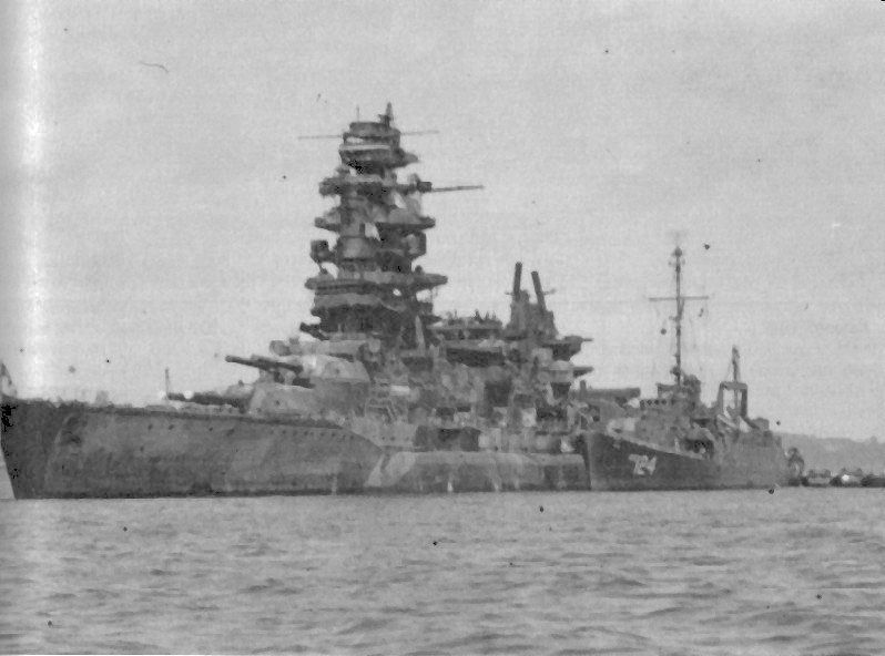 The U.S. Navy high-speed transport USS Horace A. Bass (APD-124) alongside the Japanese battleship Nagato at Nagaura-ko, Yokosuka, Japan, 30 August 1945.